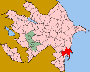 Map of Azerbaijan showing Neftchala (Neftçala) rayon.